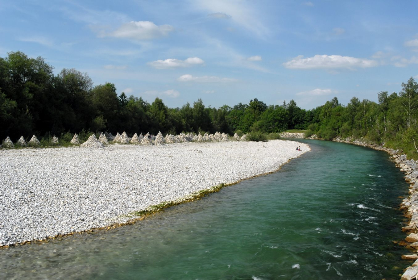 Lenggries, river Isar